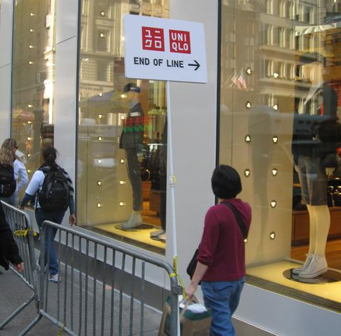 The success of its first New York store has prompted Japanese retailer, Uniqlo, to move forward with plans to open hundreds of US outlets.